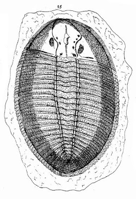 Etching of the trilobite Ogygiocarella debuchii by Rev. Edward Lhwyd, found by him near Llandeilo, probably on the grounds of Lord Dynefor's castle. He wrote of it: "The 15th whereof we found great Plenty, must doubtless be referred to the Sceleton of some flat Fish..."